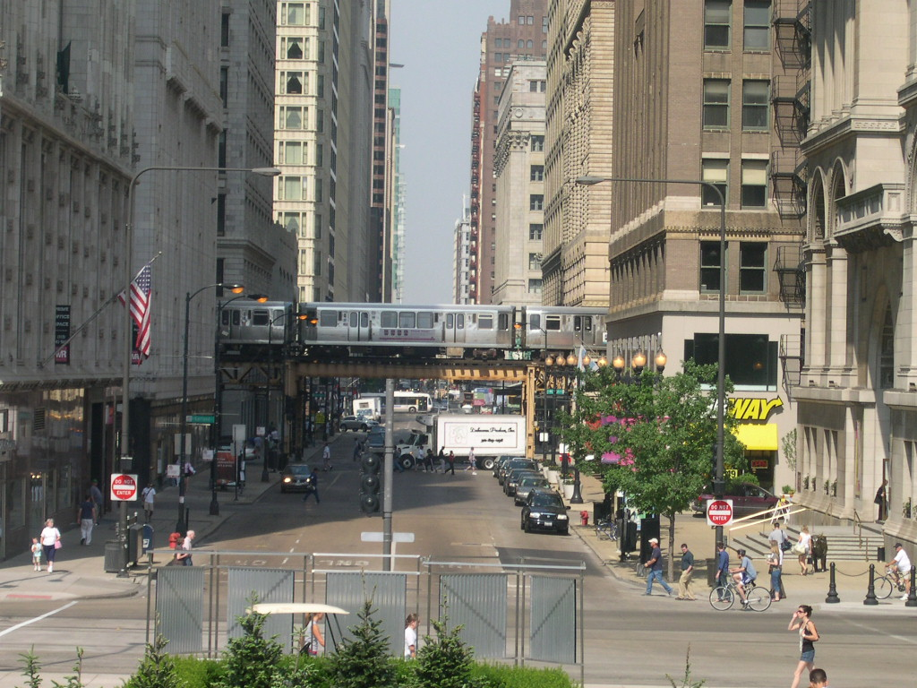 Chicago El. Seen from Millennium Park. Chicago, Illinois. Intersection of Washington and Michigan.